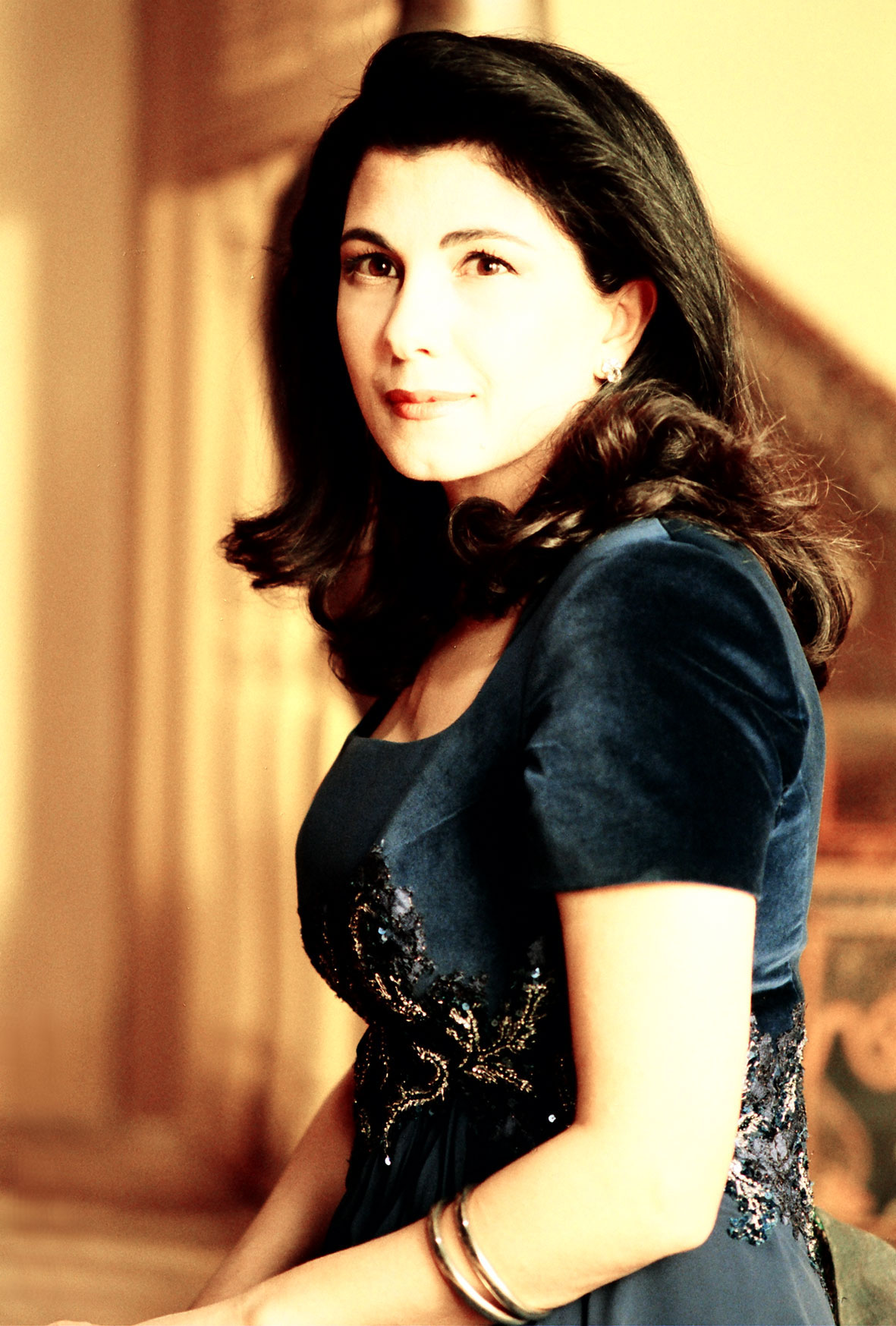 Portrait of Mrs. Majida by Maya Kanakry taken in 1994.